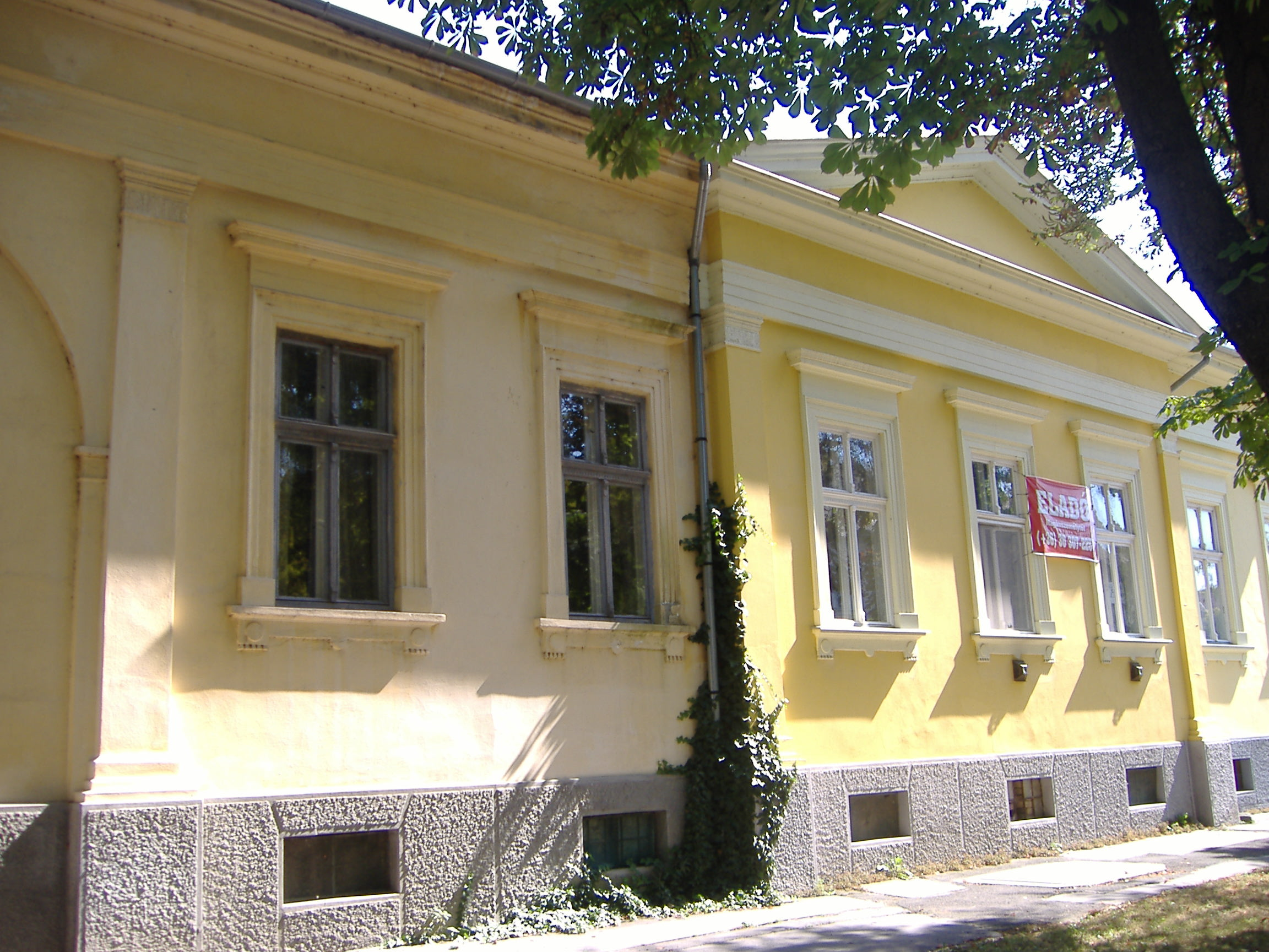 The Lonovics mansion in Makó, Hungary.